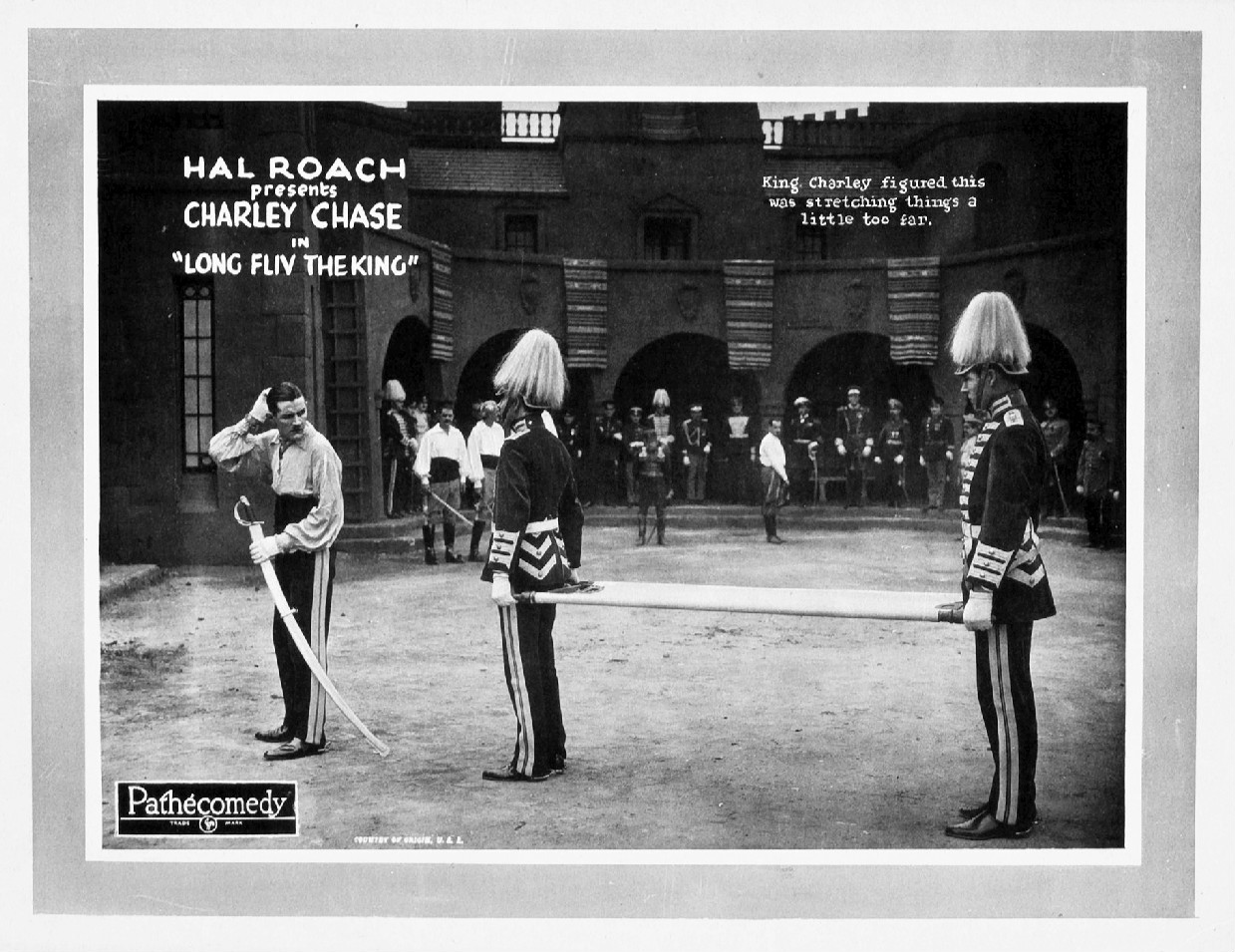 Lobby card for the American short comedy film Long Fliv the King (1926). The item has no copyright markings on it as can be seen in the links above. At bottom is Country of Origin USA. There are two cards shown in the link. This is the bottom one. Both have Country of Origin USA at lower left; the mark is not as clear on the top card as it is on the bottom one.